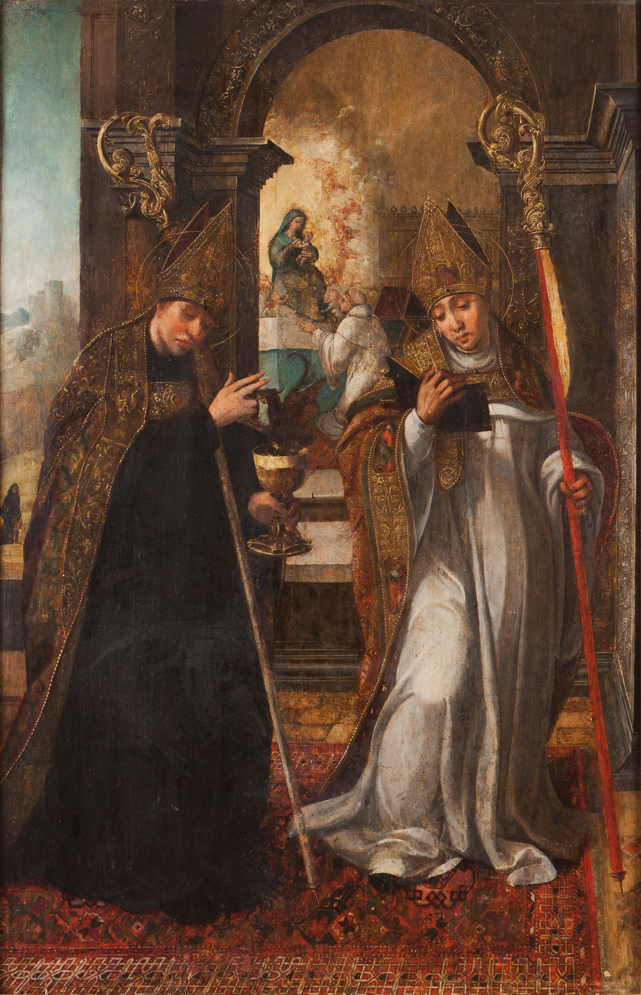 Saint Benedict and Saint Bernard (1542), by Diogo de Contreiras. The painting was part of a series of four that belonged to the female Cistercian convent of Santa Maria de Almoster (this one, together with "Pentecost", "Ressurrection" and a lost "Adoration of the Shepherds").